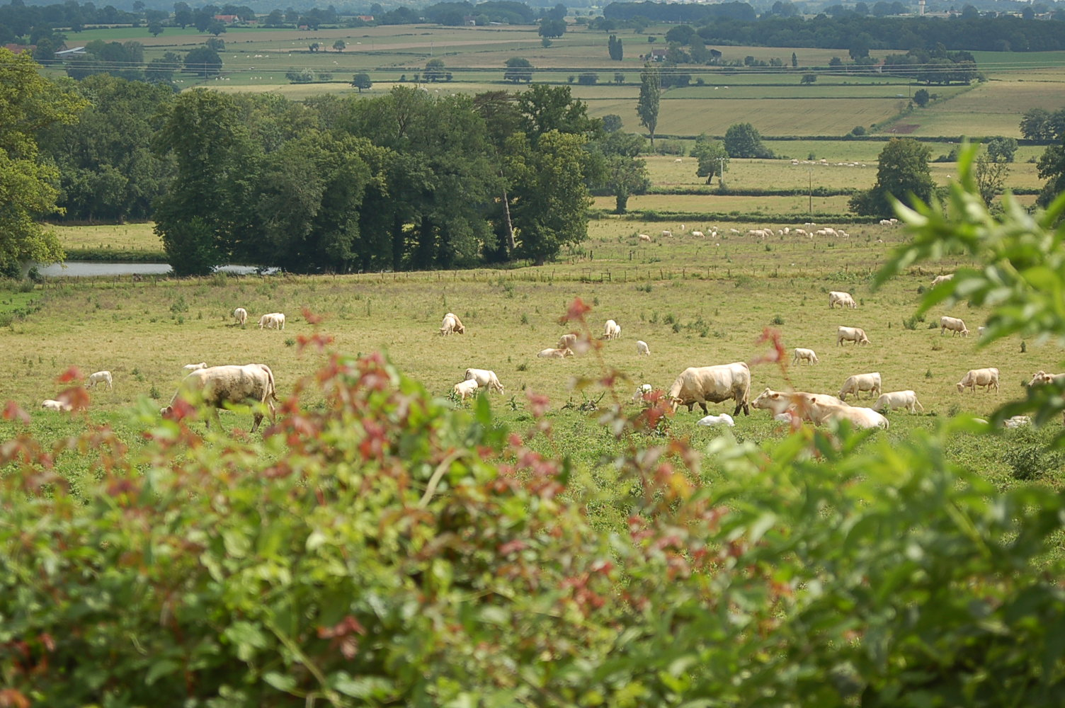 French landscape (Berry, Cher)